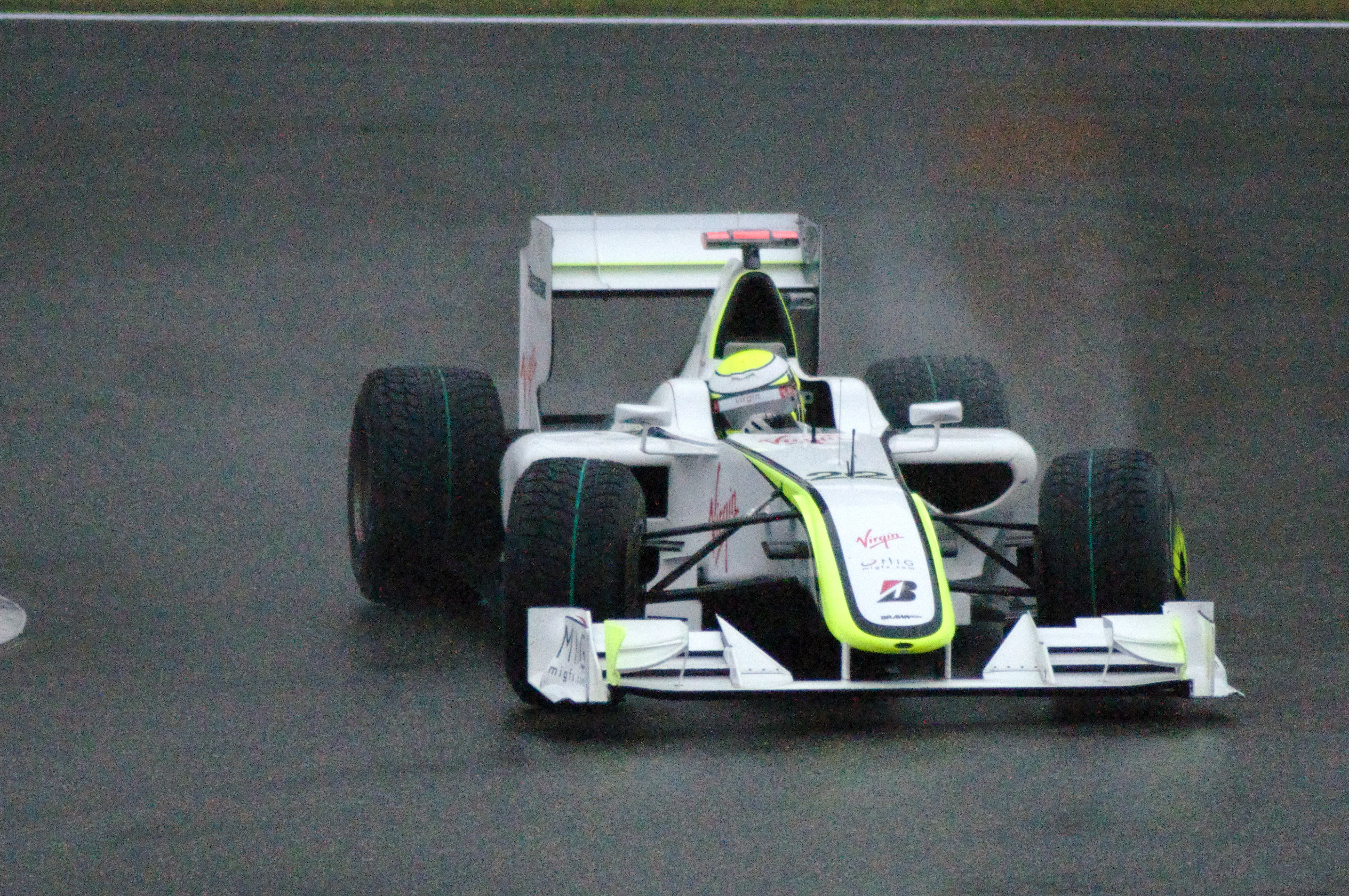 Jenson Button driving for Brawn GP at the 2009 Chinese Grand Prix.